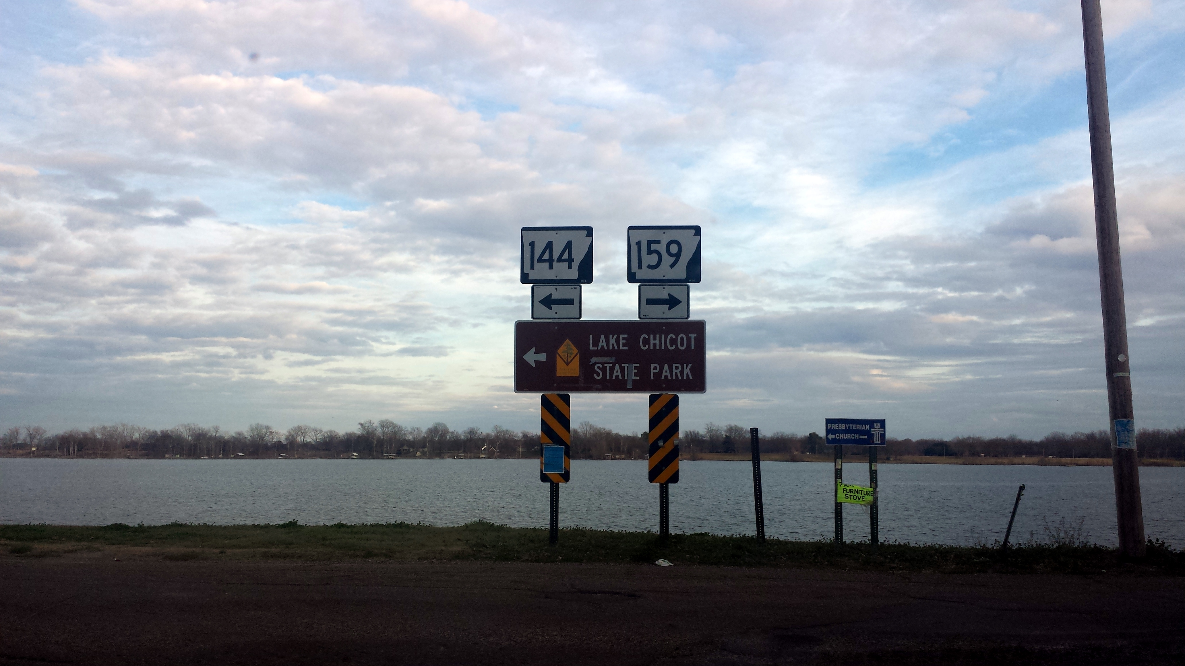 Highway 144 turns left (north) and Highway 159 begins here and runs south at Lake Chicot in Lake Village, AR. Facing east